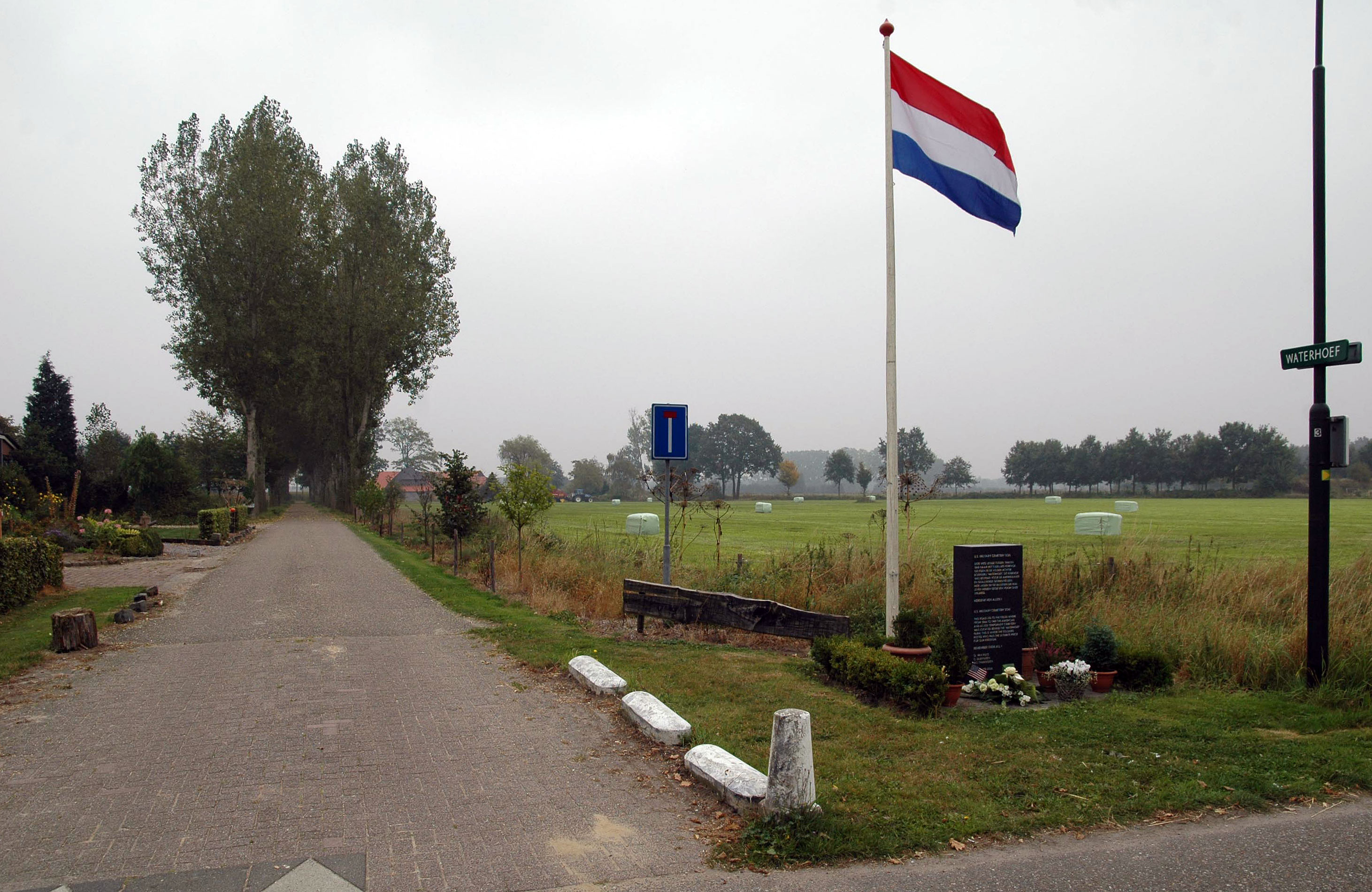 Monument remembering the US military cemetery in Son, The Netherlands